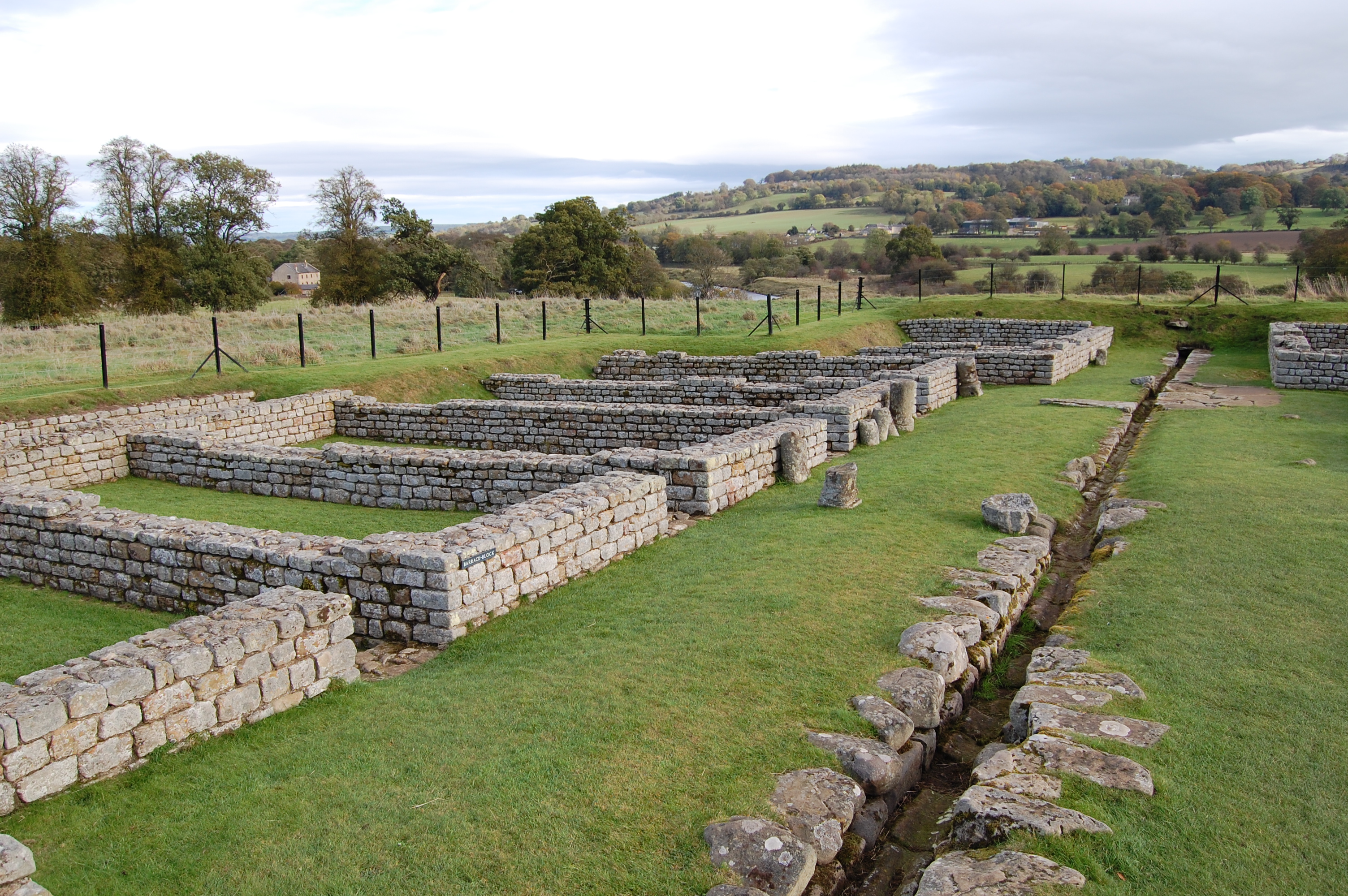 Ruins of soldiers' barracks at Chesters Roman Fort, along Hadrian's Wall. There is a gutter visible, which was in the courtyard between the barracks.